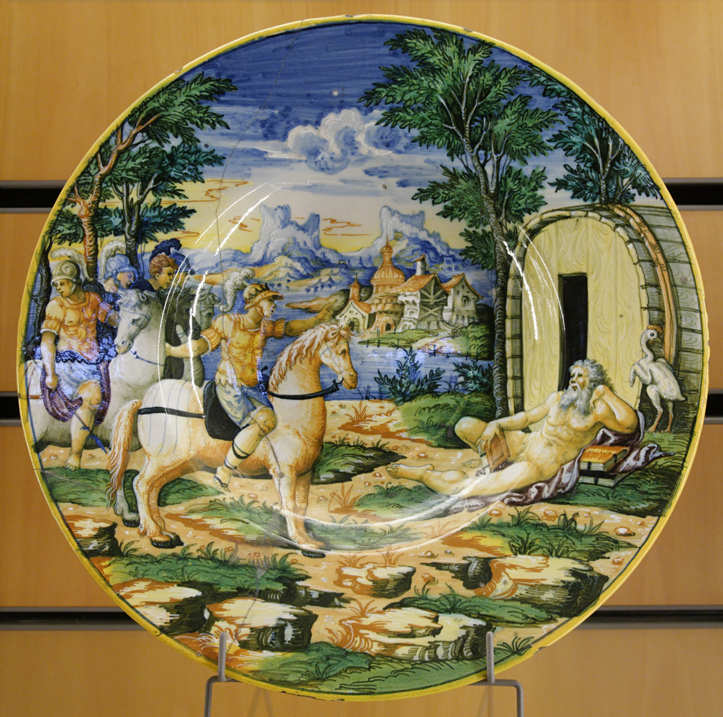 Alexander and Diogenes. Maiolica with a istoriato polychrome decoration, Urbino, 16th century.